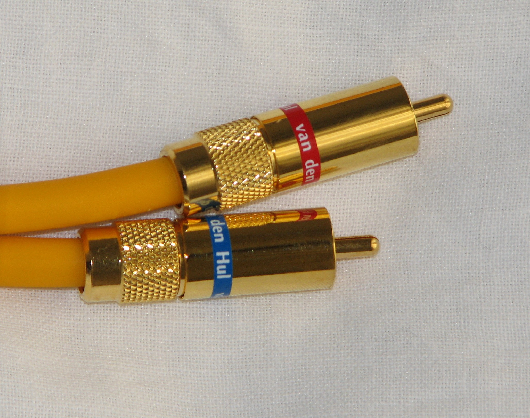 High quality RCA connectors attached to audio cable.